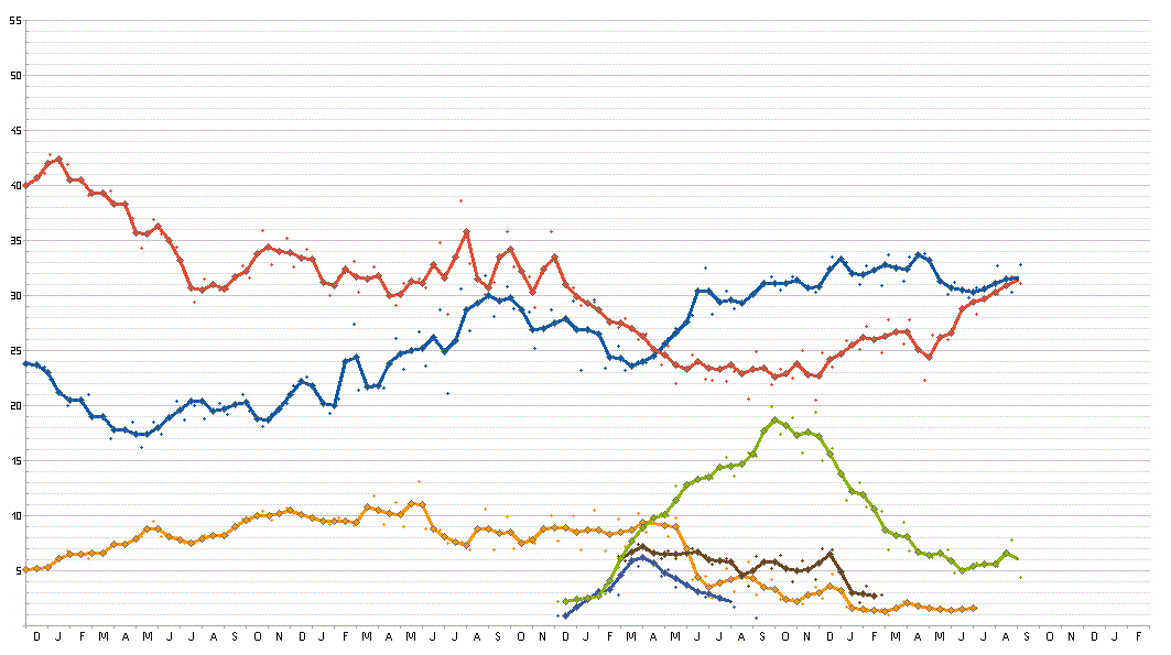 Opinion polling average for Next Croatian parliamentary election